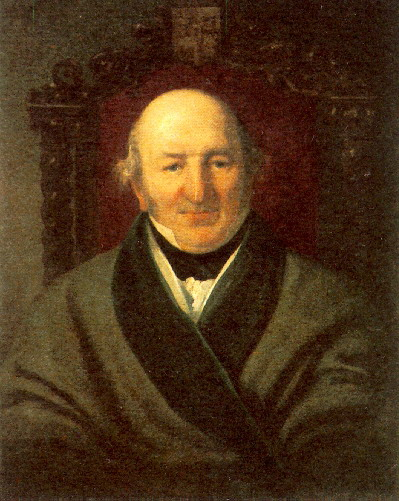 Alexandr Alexandrovich Shachovskoy (1777—1846). Russian drama writer